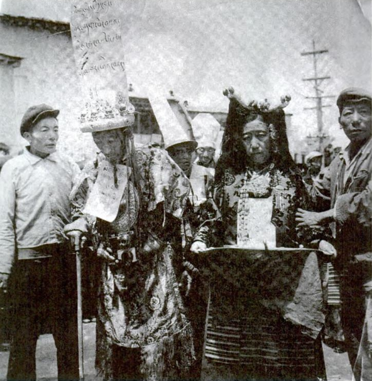 Demo Rinpoche and his wife in all their finery being paraded through the streets of Lhasa during the Cultural Revolution